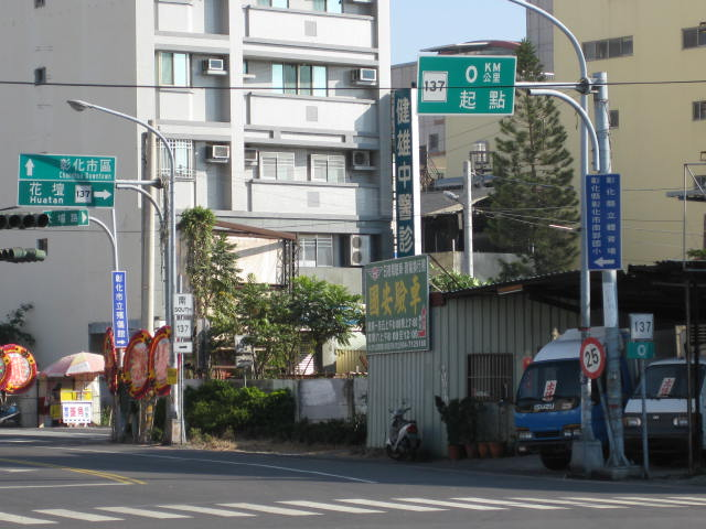 The beginning of county highway No.137, located at Dapu,Changhua City,Changhua County,Taiwan.